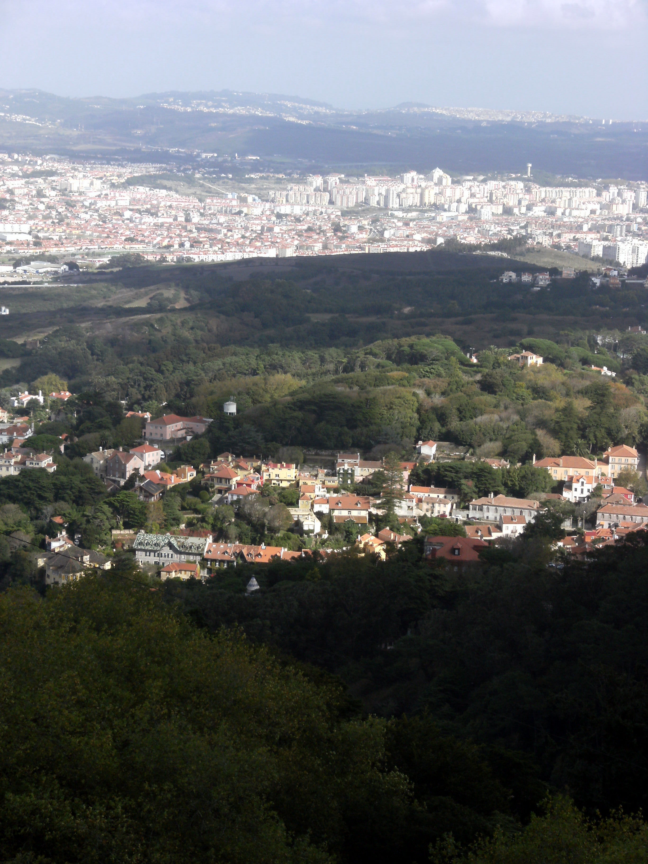 Sintra 2012-10-27